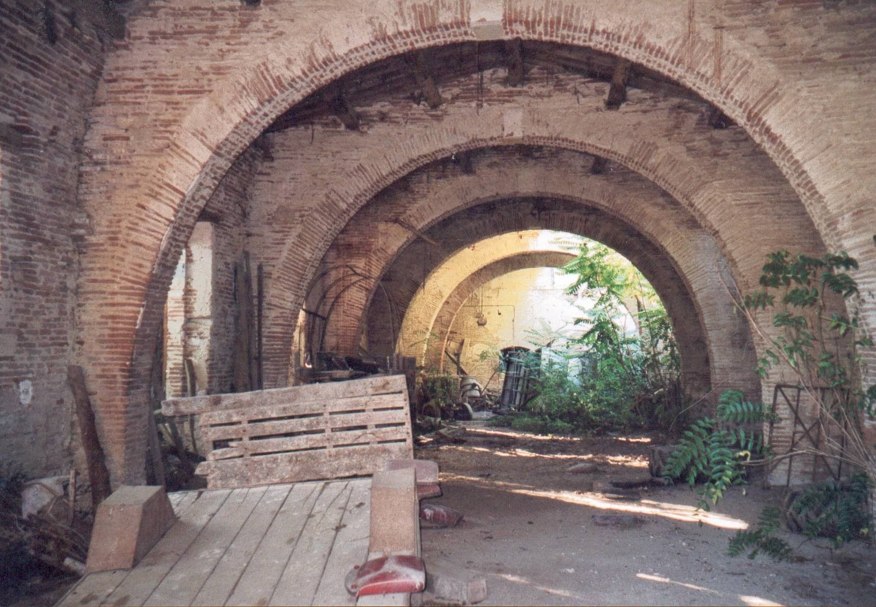 Orangerie in Bonrepos castle, Bonrepos-Riquet village, Haute-Garonne, France